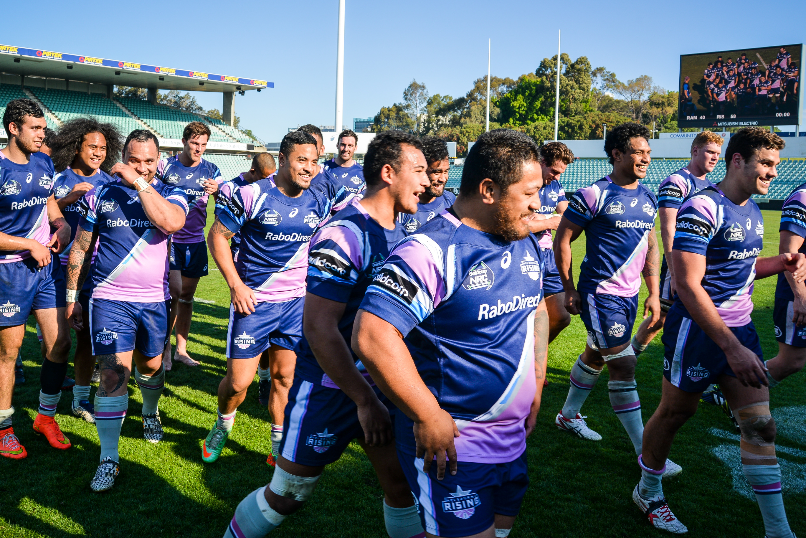 Melbourne Rising depart the field after a win over Greater Sydney Rams in Round 8 National Rugby Championship